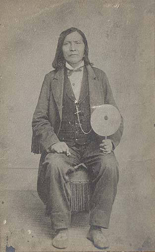 Nez Perce Chief Timothy sits for portrait, Washington D.C., 1868